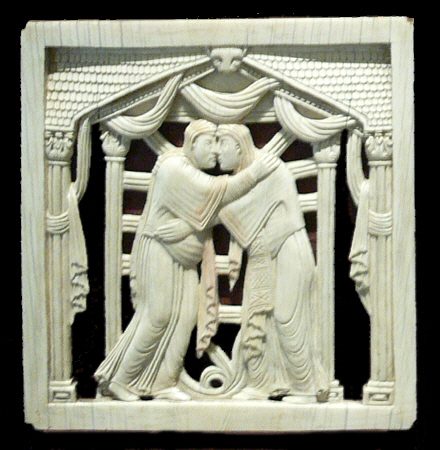 Visitation, Milan 962–973, ivory; one of the reliefs donated to the Magdeburg Cathedral by Otto I Bayerisches Nationalmuseum München, Inv. Nr. 17/418–420 (drei Reliefs)